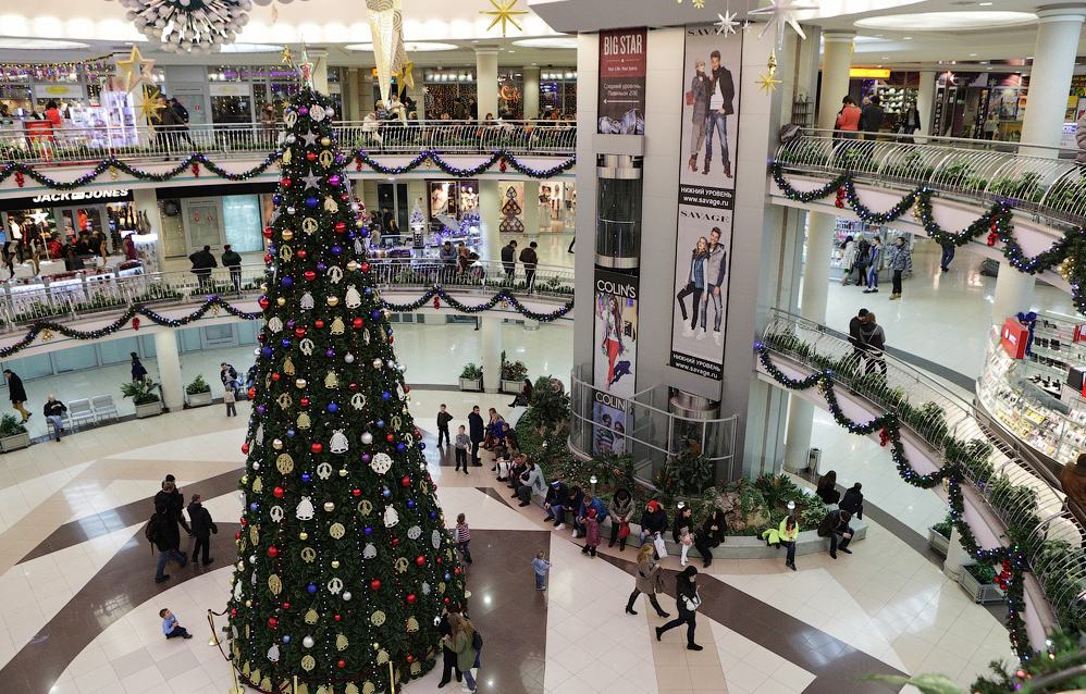 Trade center Capital, Minsk, Belarus